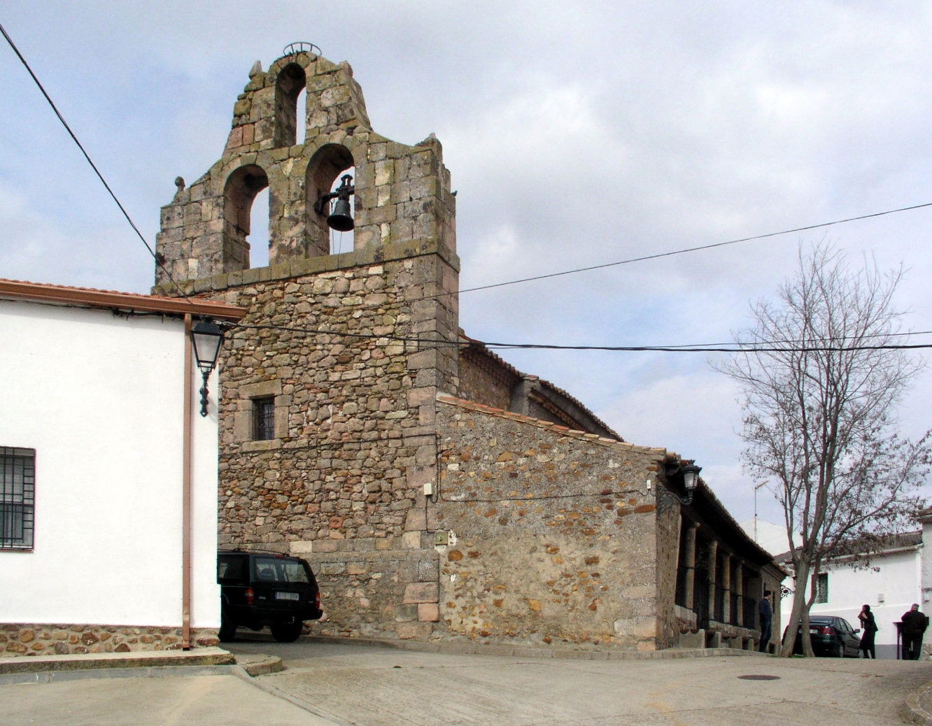 Puebla de Beleña, Church, Guadalajara, Spain. Side view.